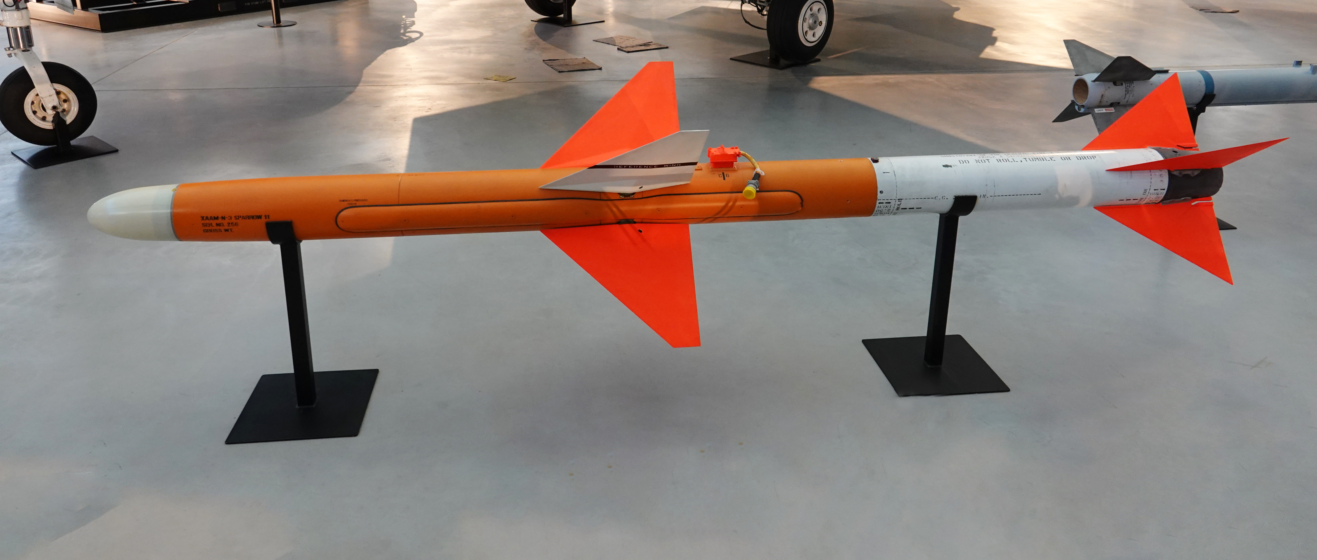 This is the U.S. Navy Sparrow 2 air-to-air missile, designed and built by the Douglas Aircraft Company. It was a highly maneuverable missile designed for U.S. Navy aircraft and was similar to the Sparrow 1, America's first operational air-to-air guided missile, but the Sparrow 2 had a more advanced guidance system. The Sparrow family of missiles originated in 1946 and became one of the largest and most important missile programs for the United States, NATO, and other U.S. allies. A branch of the Sparrow family exists today as the AIM series of missiles. This missile was donated to the Smithsonian in 1959 by the U.S. Naval Missile Center. Picture taken at the National Air and Space Museum's Steven F. Udvar-Hazy Center in Chantilly, Virginia, USA. Specifications: Length: 3.6 m (11 ft 9 in) Weight, loaded: 133 kg (295 lb) Range: 5-8 km (3-5 mi) Thrust: 34,700 N (7,800 lb) Propellant: solid fuel Material: Aluminum and steel; fiberglass nosecone Manufacturer: Douglas Aircraft Co.